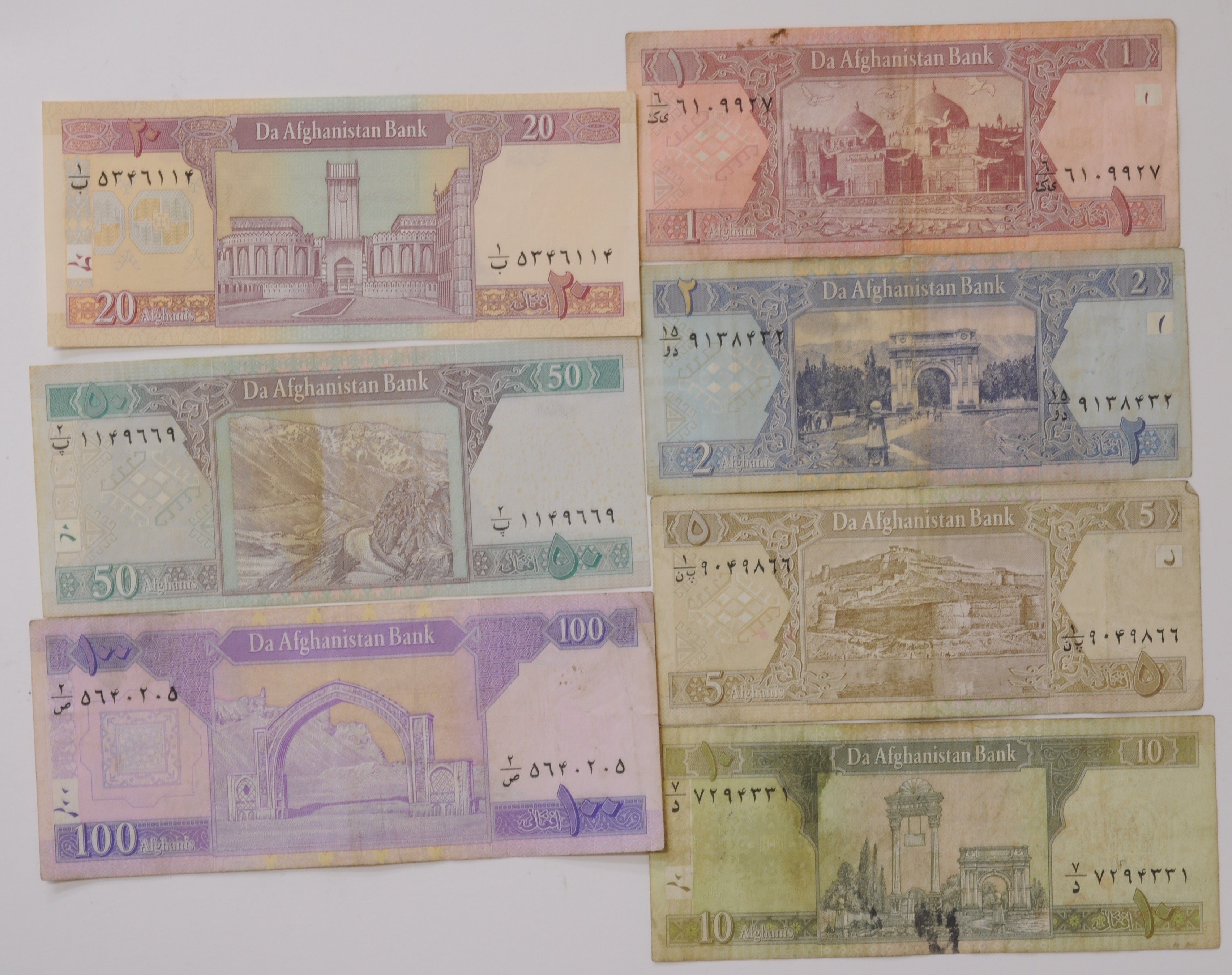 انۍ Afghani